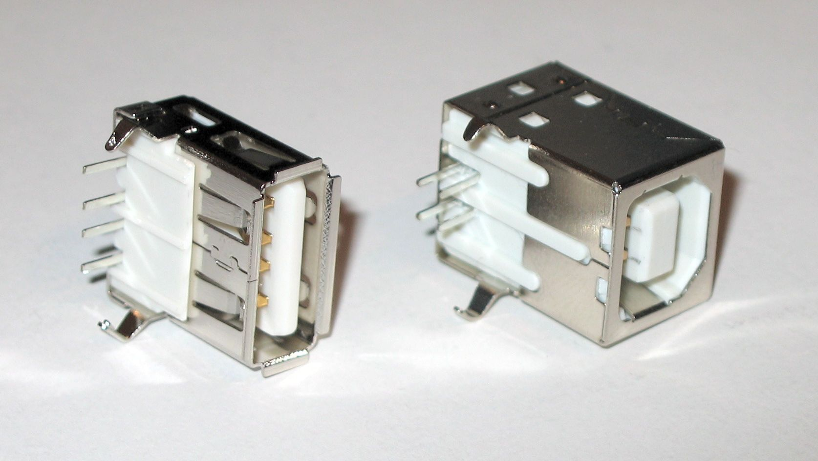 PCB-mounting female USB connectors; Type A on the left, type B on the right. Pinouts are the obvious. Brought from Maplin Electronics.